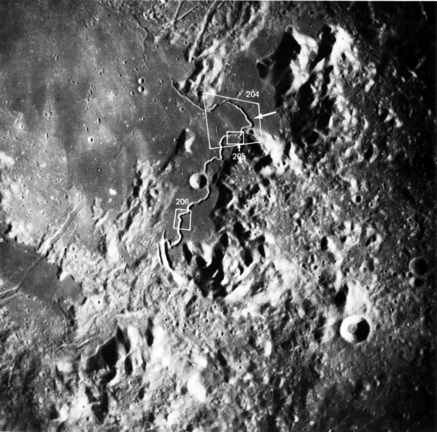 A full shot of the Hadley Rille. The Apollo 15 landing site at 26.4° N, 3.7° E (arrow) was selected because of the variety of important lunar surface features concentrated in the small area.